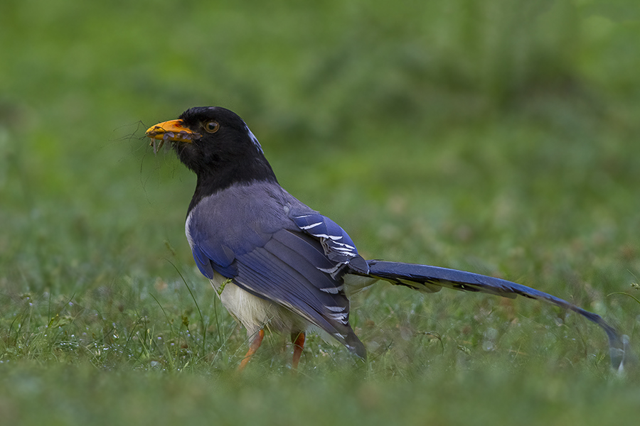 The species Yellow-billed Blue Magpie had been photographed at Dugalbitta, Chopta, Uttarakhand, India on 13th June 2013 during the GoingWild bird photography tour in Uttarakhand.